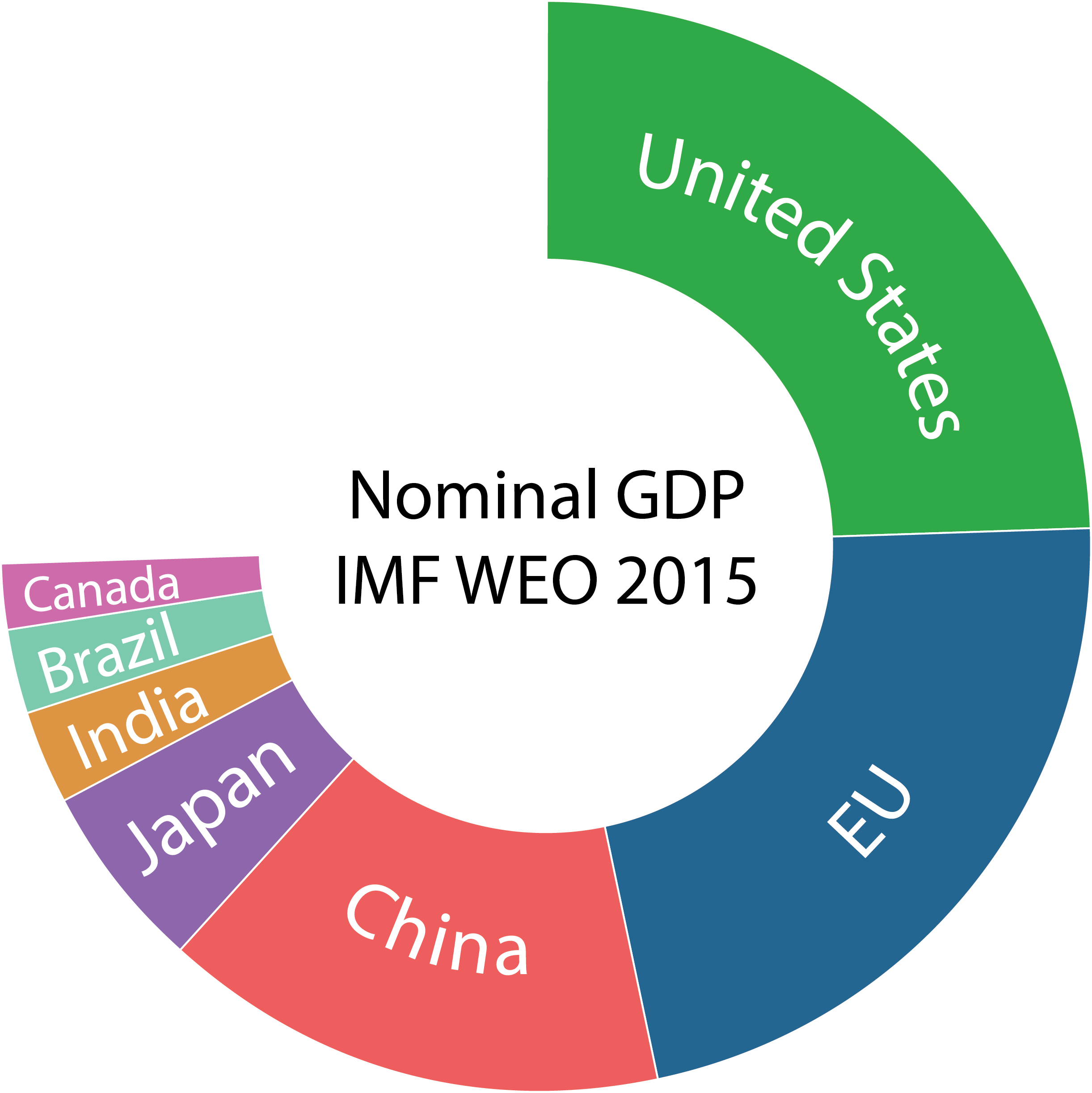 This image displays the share of world nominal GDP by major global economies.